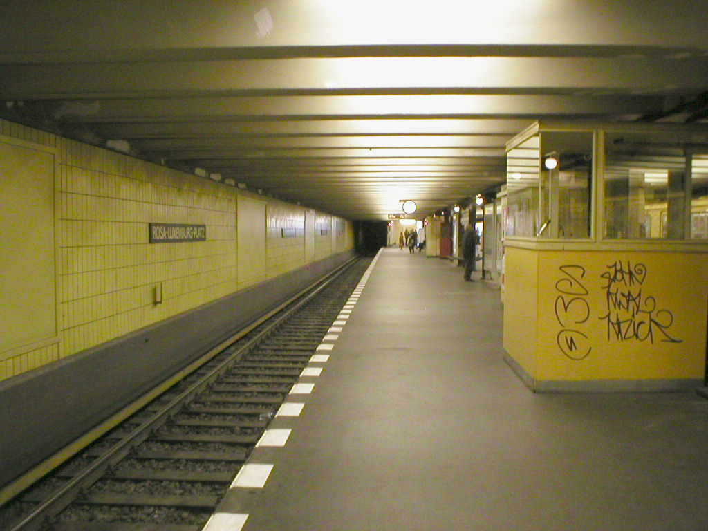 The Berlin U-Bahn station Rosa-Luxemburg-Platz, line U2